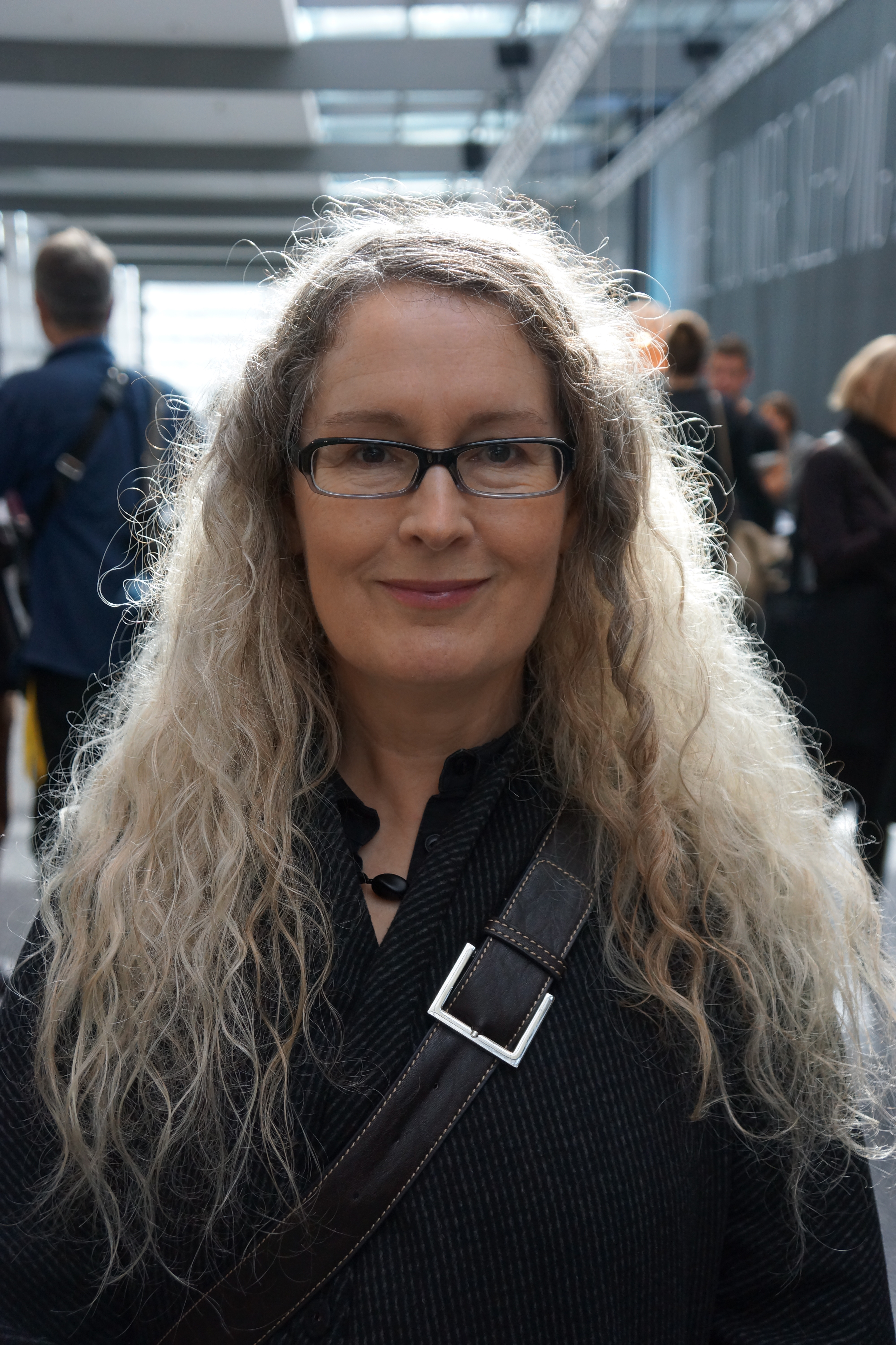 Elizabeth Knox in Frankfurt in October 2012.